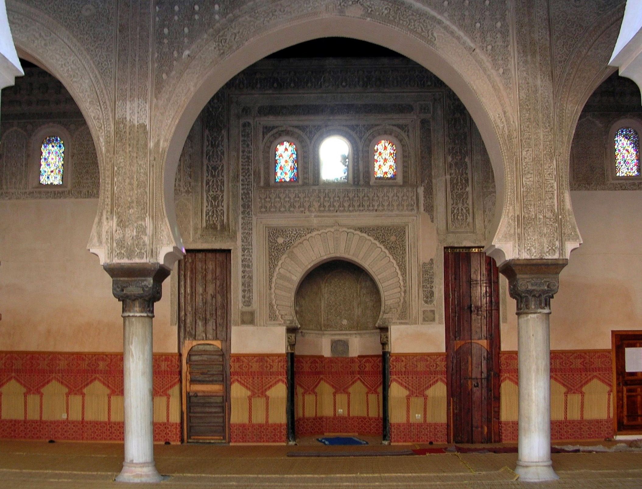 Mihrab of Bou Inania Madrasa, Fes, Morocco